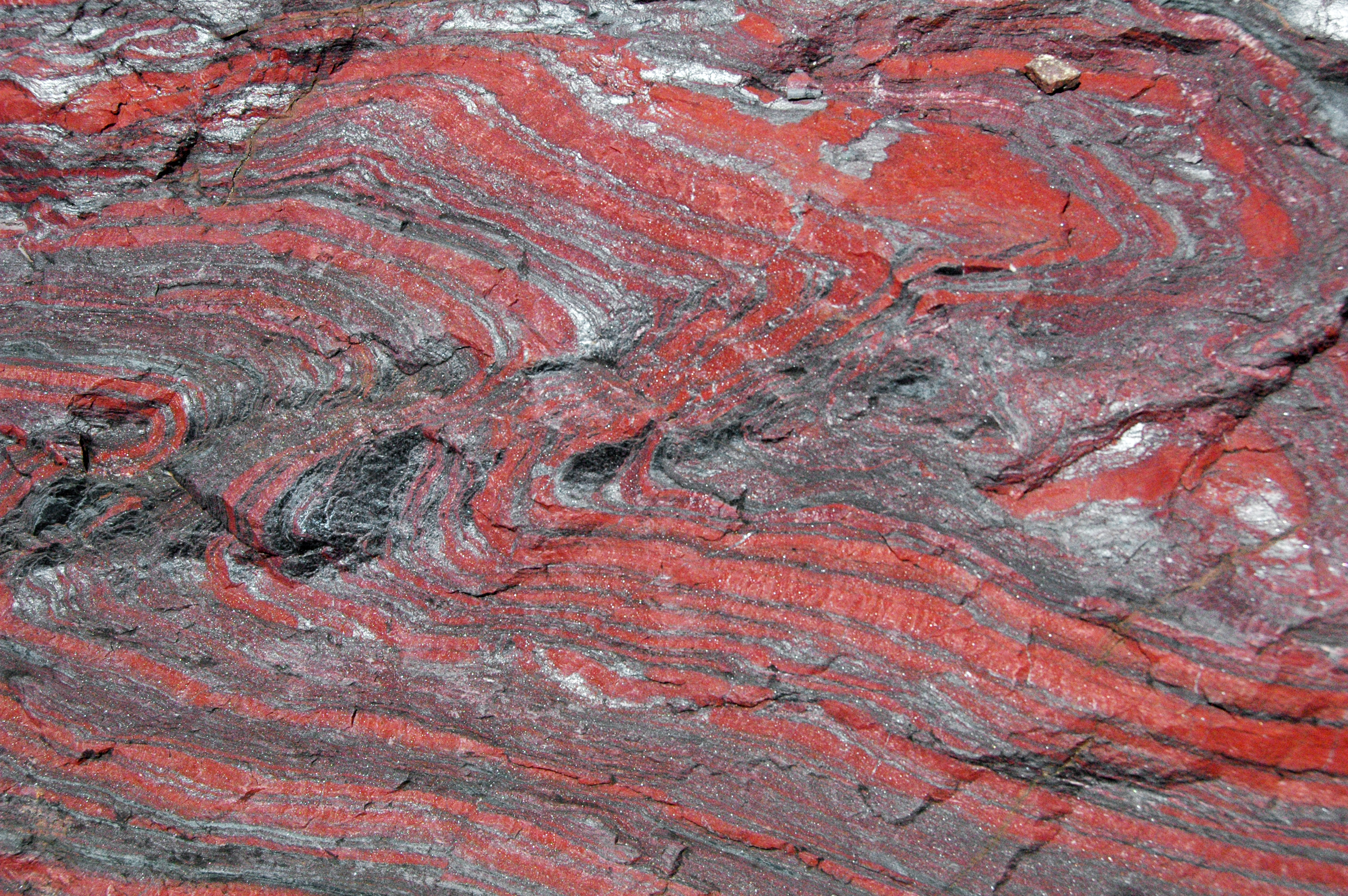 Jaspilite in the Precambrian of Michigan, USA. Banded iron formations, or BIFs, are unusual, dense sedimentary rocks consisting of alternating layers of iron-rich oxides and iron-rich silicates. Most BIFs are Proterozoic in age (although some are Late Archean), and do not form today - they're “extinct”! Many specific varieties of iron formation are known, and some are given special rock names. For example, jaspilite is an attractive reddish & silvery gray banded rock consisting of hematite, red chert (“jasper”), and specular hematite or magnetite. Because of their age, most BIFs have been around long enough to have been subjected to one or more orogenic (mountain-building) events. As such, most BIFs are folded and/or metamorphosed to varying degrees. BIFs are known from around the world, but some of the most famous & extensive BIF deposits are found in the vicinity of North America’s Lake Superior Basin. Many BIFs have economic concentrations of iron and are mined. BIFs are the most important variety of iron ore on Earth. A famous BIF unit is the 1.874 or 2.11 billion year old Negaunee Iron-Formation, which outcrops in the Marquette Iron Range of Michigan’s Upper Peninsula (UP), USA. The Negaunee Fe-Fm. has been metamorphosed to varying degrees and contains many specific lithologies, including jaspilites, taconites, specularites, ferruginous quartzites, ferruginous cherts, and ferruginous slates. The Negaunee Fe-Fm. has economic concentrations of iron and much of the unit in the Marquette Iron Range has been mined away. The best remaining, easily-accessible outcrop is Jasper Knob in the town of Ishpeming, Michigan. Earth’s oldest known macrofossils, Grypania spiralis, occur in this unit. Stratigraphy: Negaunee Iron-Formation, Paleoproterozoic, 1.874 or 2.11 Ga Locality: Jasper Knob, Ishpeming, central Marquette County, Upper Peninsula of Michigan, USA